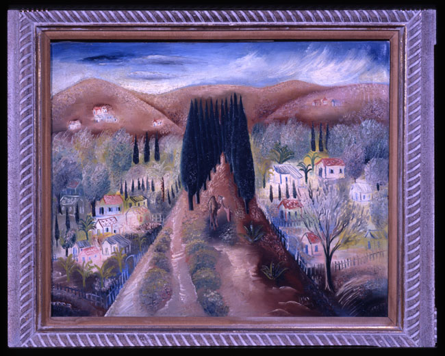 Description: New Colony by Reuven Rubin, Israel 1929 Creator/Photographer: Rubin, Reuven, 1893-1974 Medium: Painting Date: 1929 Persistent URL: Repository: Yeshiva University Museum, 15 West 16th Street, New York, NY 10011 Call Number: 1986.138 Rights Information: No known copyright restrictions; may be subject to third party rights. For more copyright information, click here. See more information about this image and others at CJH Digital Collections. Digital images created by the Gruss Lipper Digital Laboratory at the Center for Jewish History